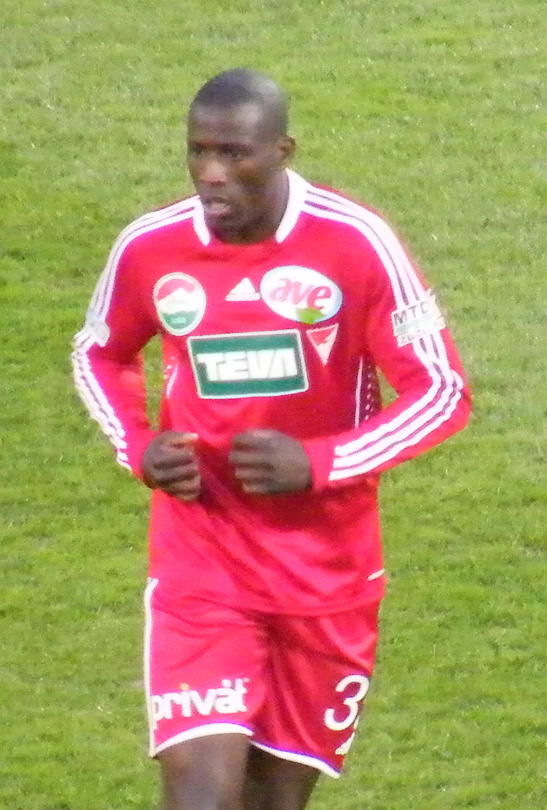 Adamo Coulibaly French football player